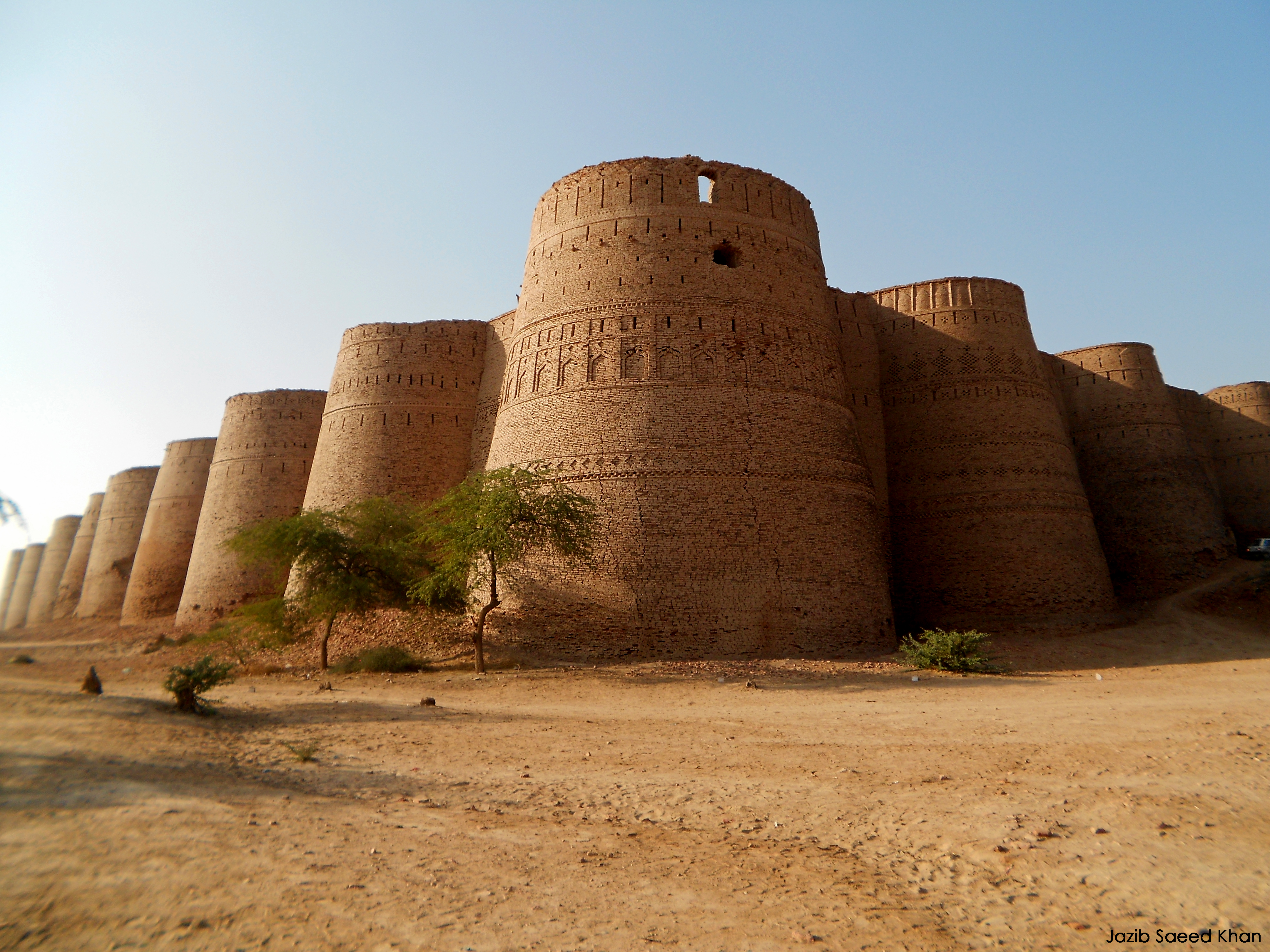 Derawar fort in the winter season